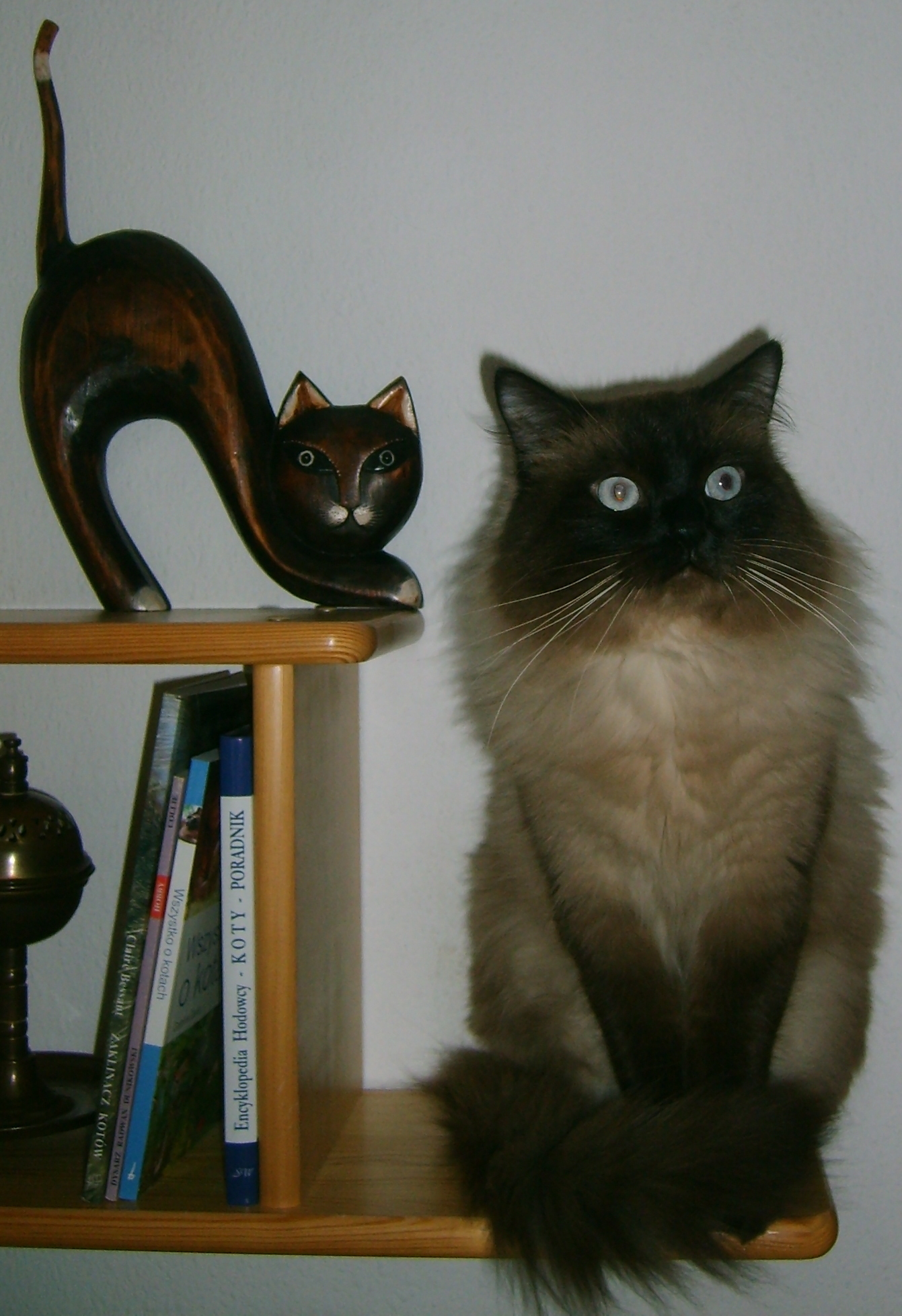 Two-year old Siberian Neva Masquarade tomcat named Einar.